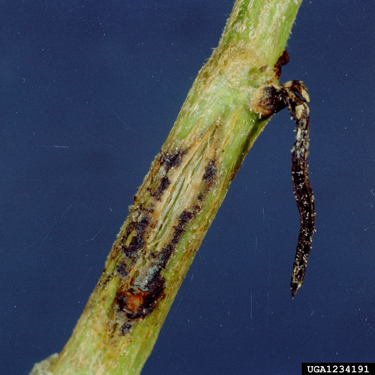 Stem Lesions on Watermelon (Citrullus lanatus var. lanatus (Thunb.) caused by Didymella bryoniae